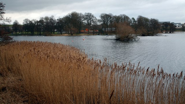 Carlingwark Loch Carlingwark Loch on the outskirts of Castle-Douglas.